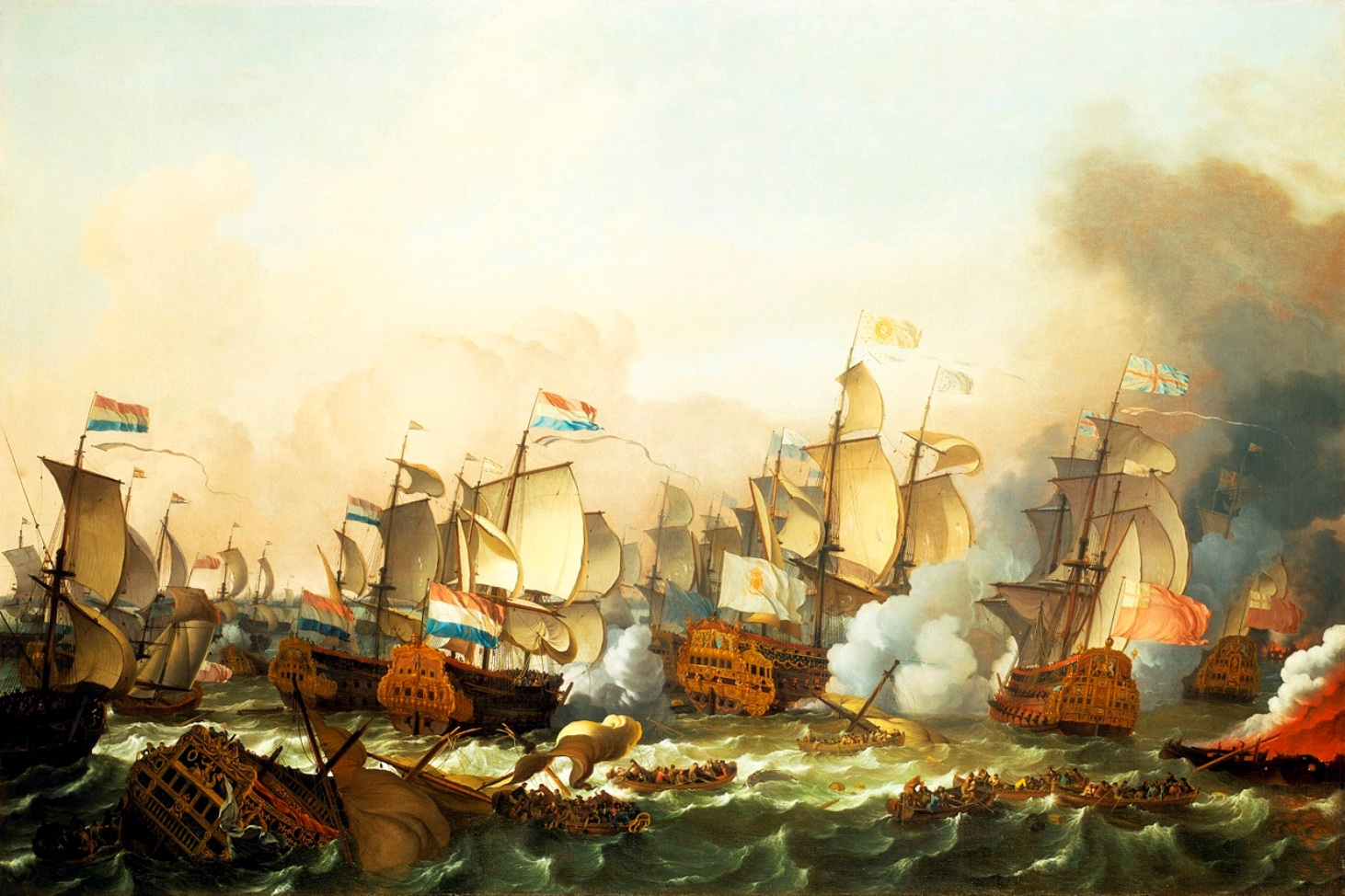 Battle of Barfleur in 1692. In the center of the painting, the French flagship Soleil Royal enters a Dutch vessel and an English ship.